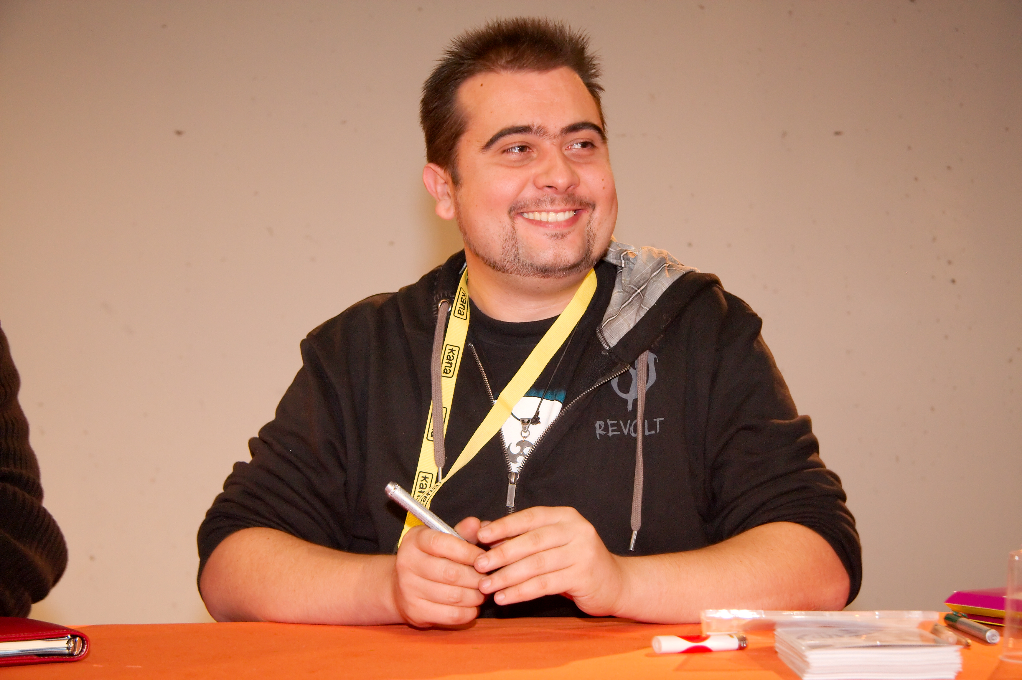 Autograph session with the Flander's Company at Chibi Japan Expo 2008 (Paris, France).